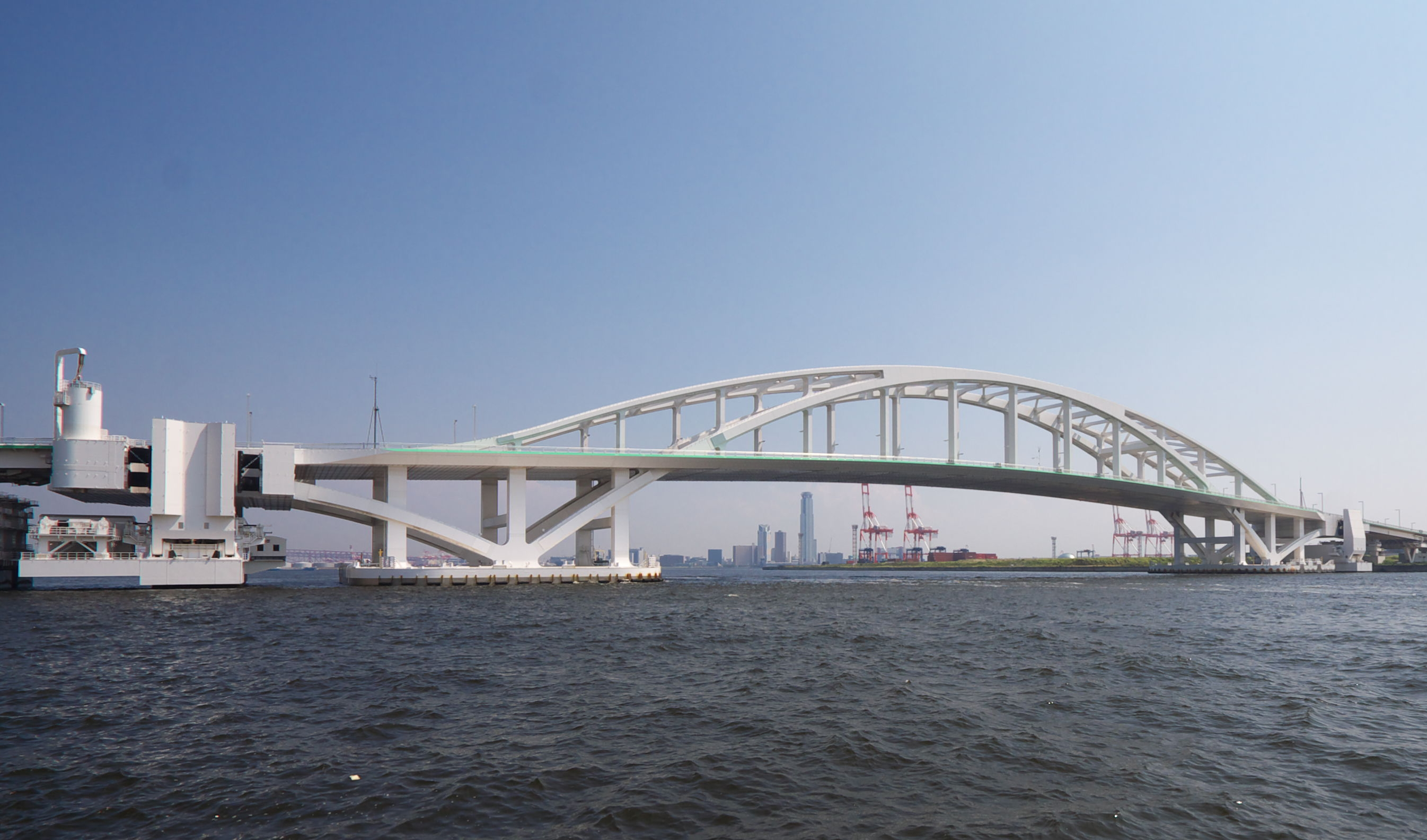 Yumemai Ohashi (Osaka, Japan)/ 夢舞大橋(大阪市, 日本)